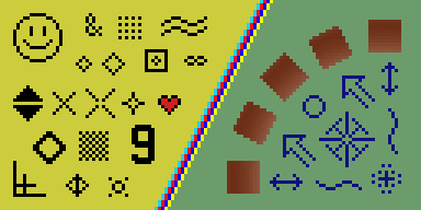 Nearest neighbor 3x scaling